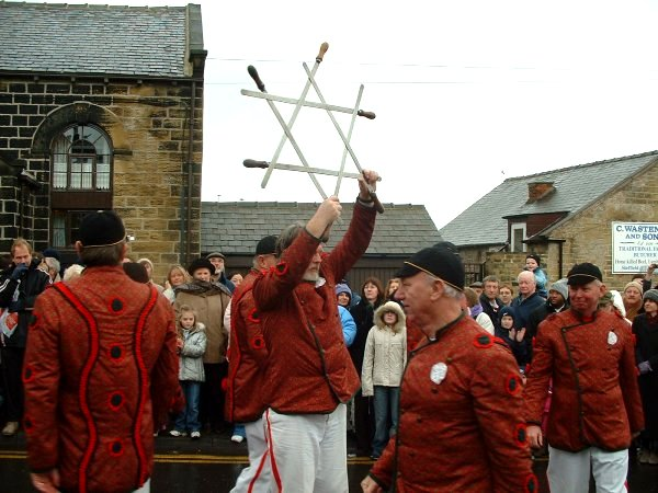 Description: Boxing Day 2005 - The Grenoside Sword Dance Captain holds aloft the sword lock before placing it around his neck. Author: Uploader - Gerry Bates. Date/Place: 26 December 2005/Grenoside Village